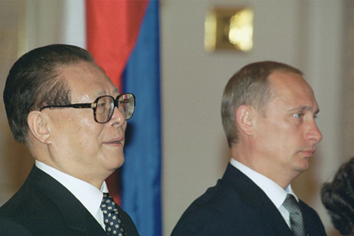 THE GRAND KREMLIN PALACE, MOSCOW. The ceremonial welcome for Chinese President Jiang Zemin.